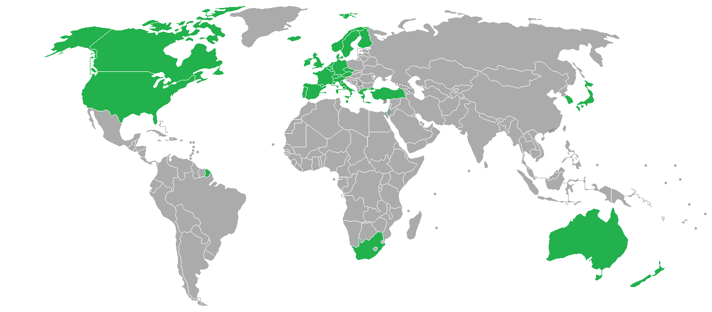 Map of Developed Countries according to the CIA World Factbook 2008 [1] Includes the French Overseas Departments and Territories which are constitutionally a part of France, as well as the overseas islands which are constitutionally a part of Spain, Portugal and Norway.